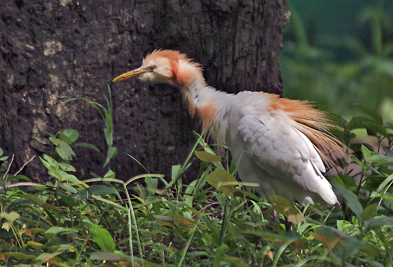 Eastern Cattle Egret Bubulcus coromandus in Kolkata, West Bengal, India.